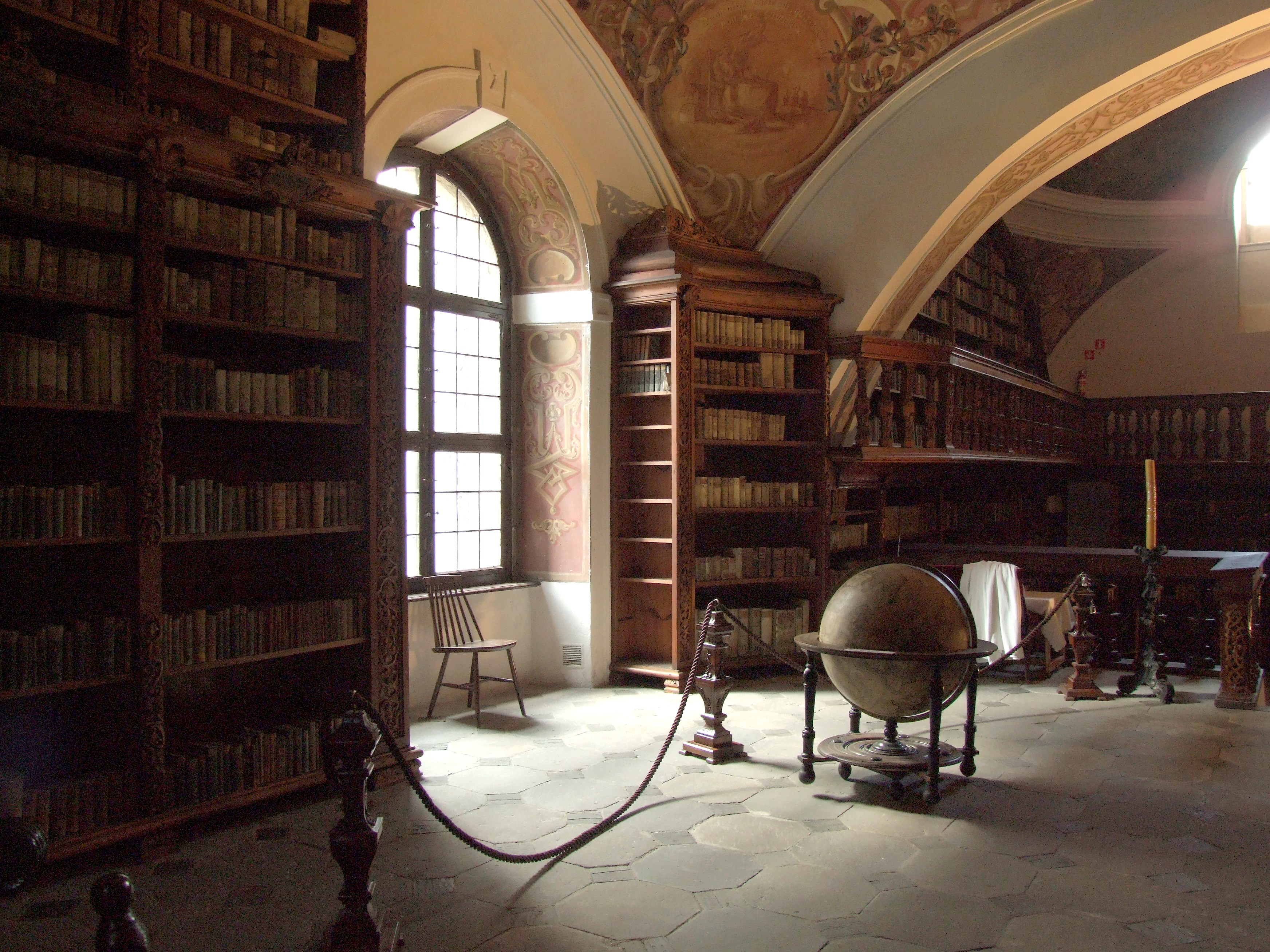 Post Augustinian library in Żagań